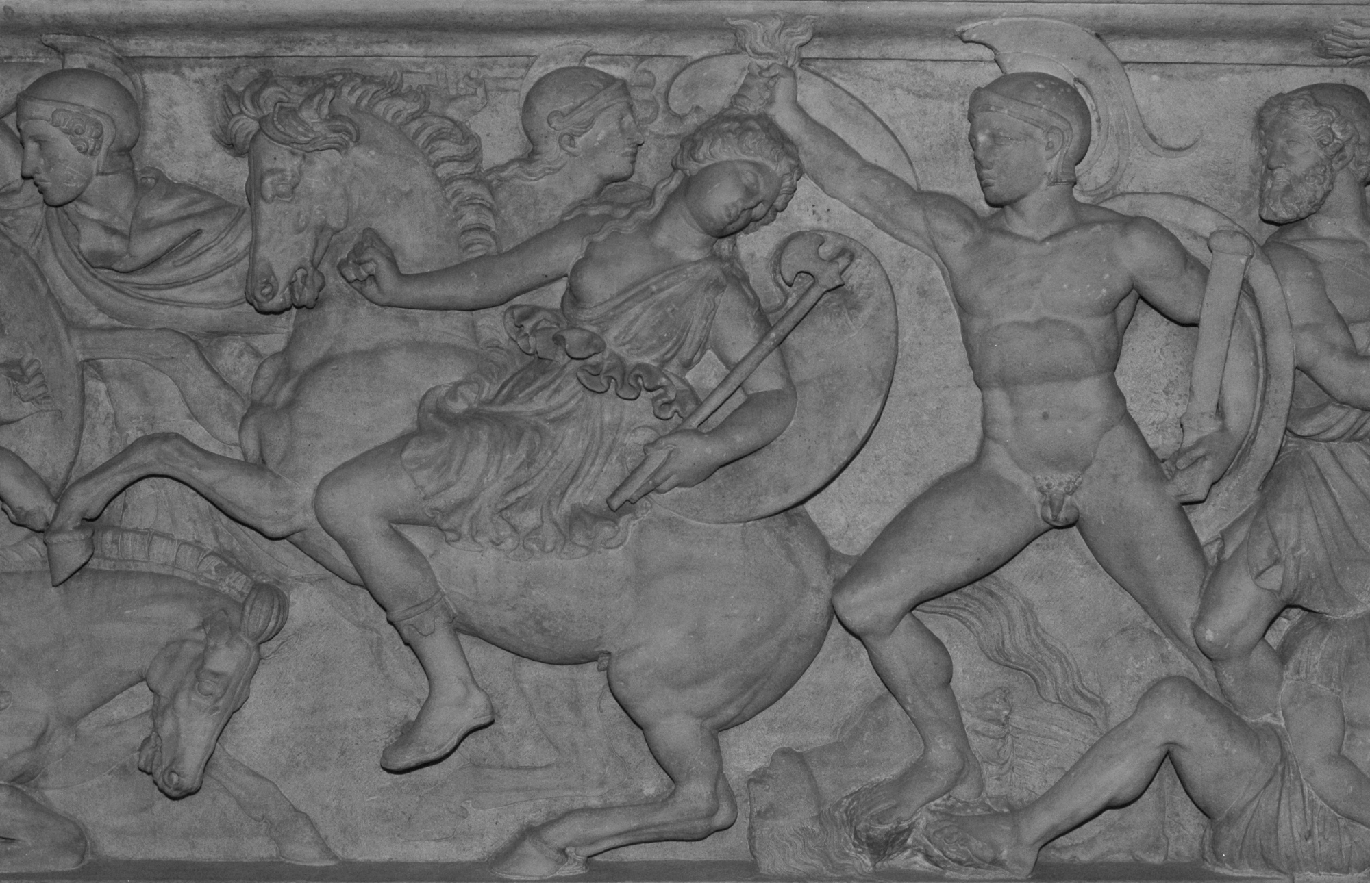 Amazonomachia (fight between Greeks and Amazons), relief of a sarcophagus (ca. 180 AC), found in Salonica 1836 (see Louvre: Department of Greek, Etruscan, and Roman Antiquities: Roman Art).